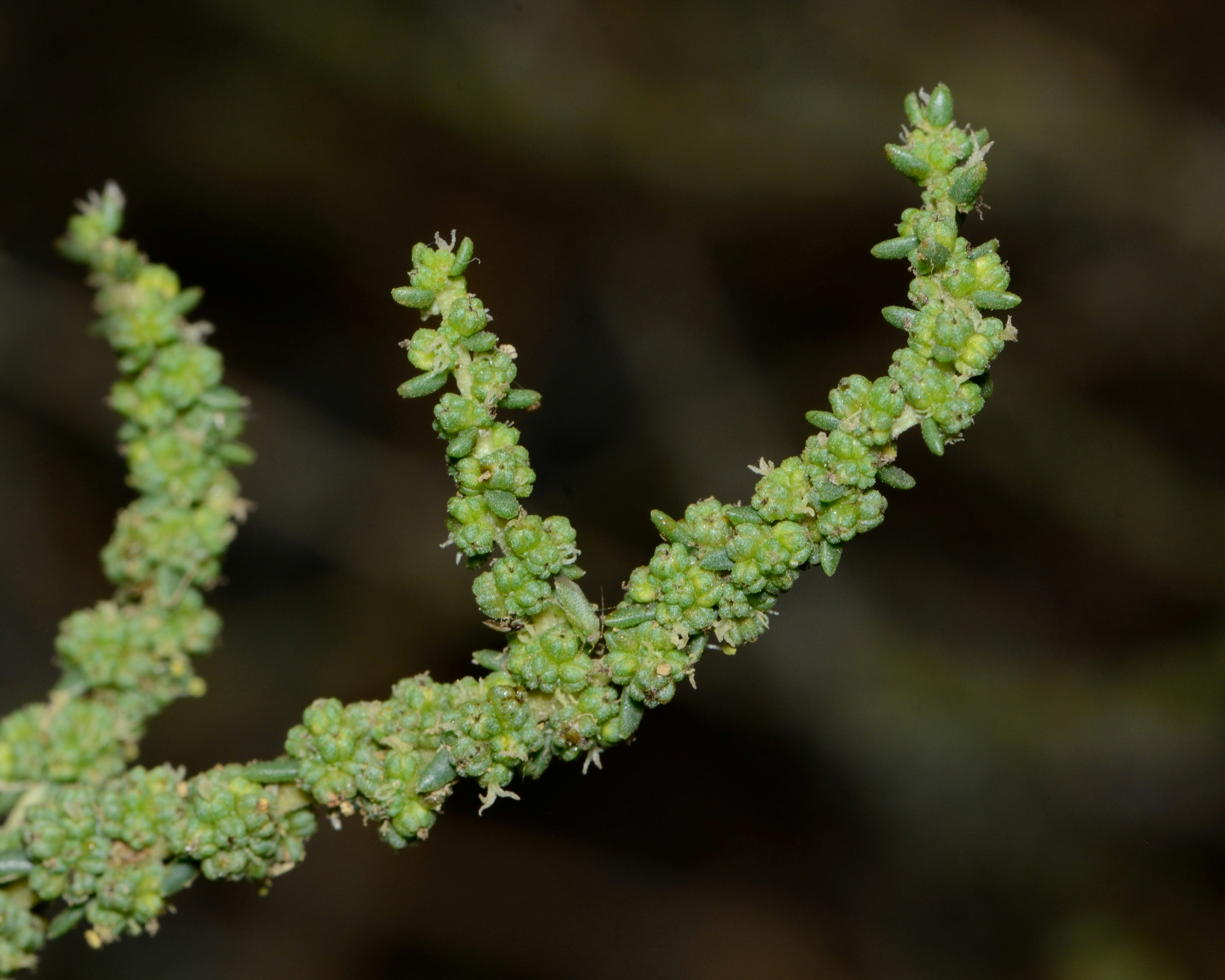 Suaeda fruticosa Forssk. ex J.F.Gmel., Nahal Boqeq, Dead Sea Valley, Israel, October 13, 2013.